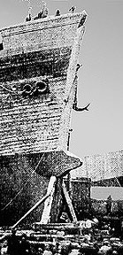 Ram of the italian frigate Re d'Italia.